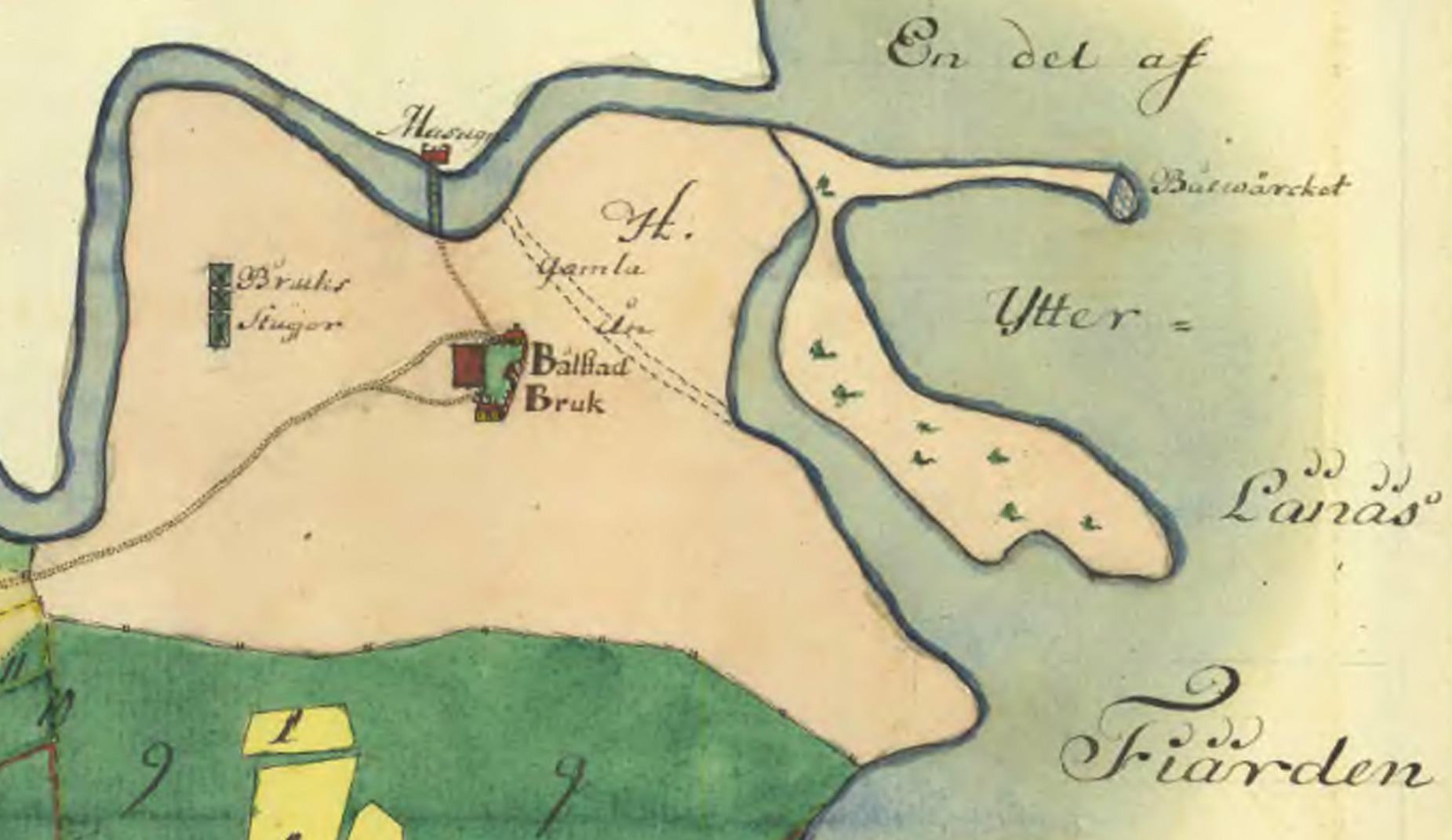 Detail from a map of the village Blästa in Västernorrland county, showing the newly established ironworks of Bollsta.